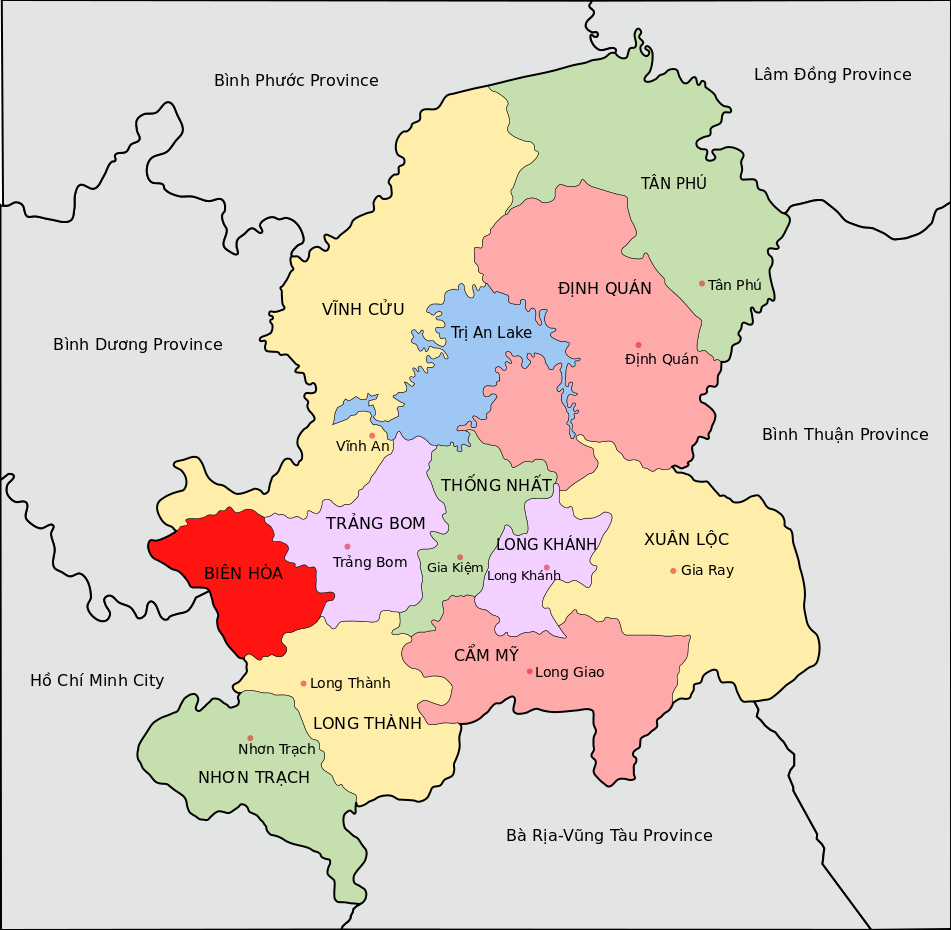 The administrative divisions of Đồng Nai Province, Vietnam. Own work. Information according to